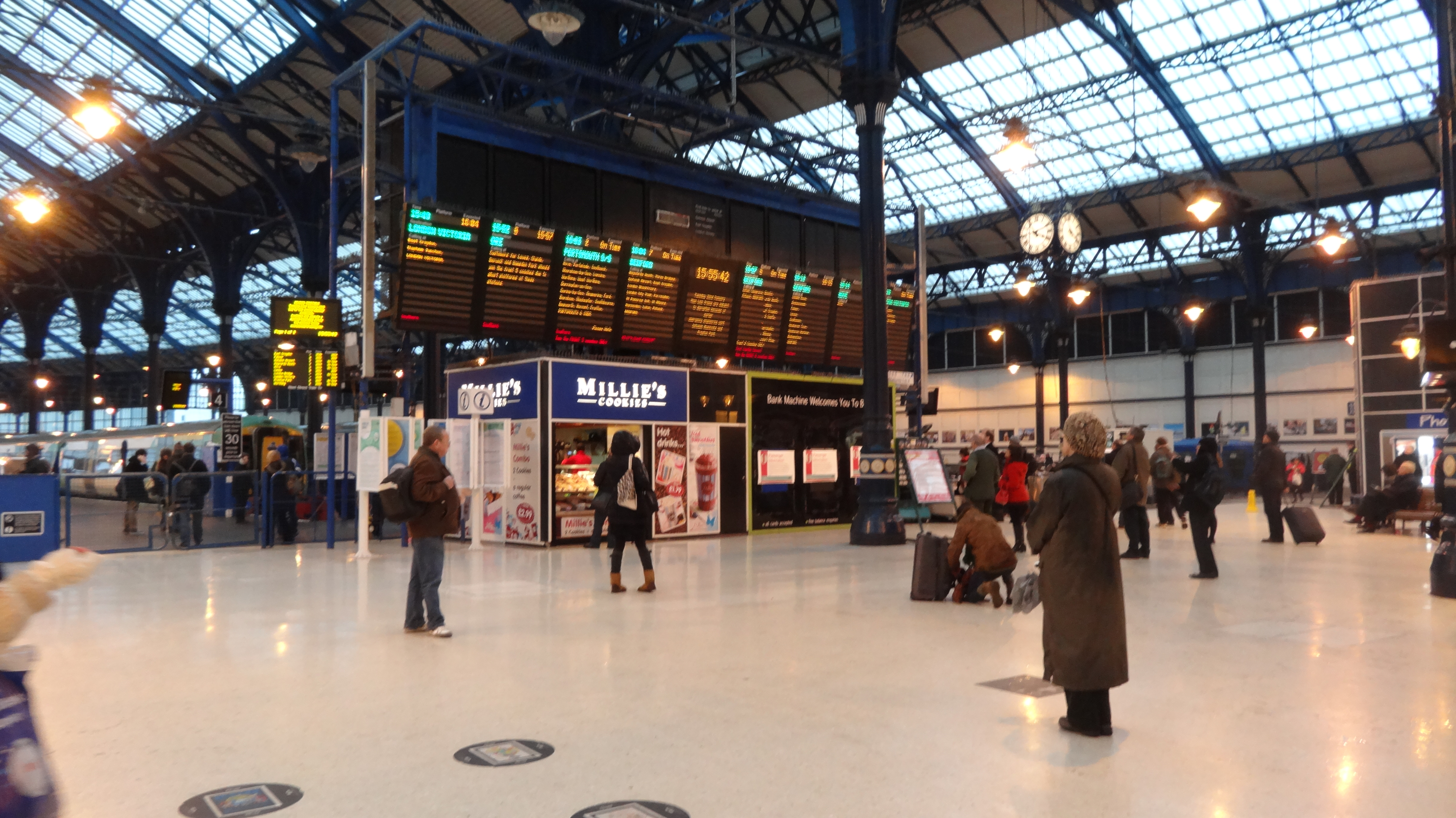 The interior of Brighton railway station, Brighton, East Sussex in January 2013.